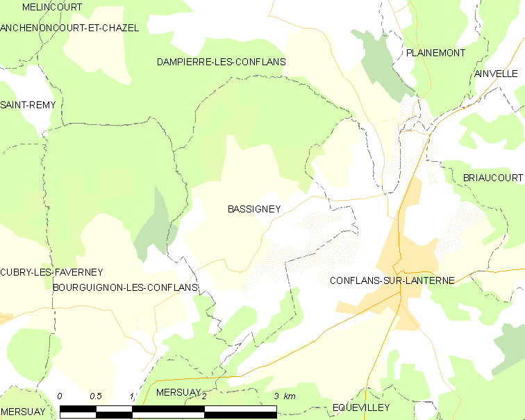 Map of French municipality